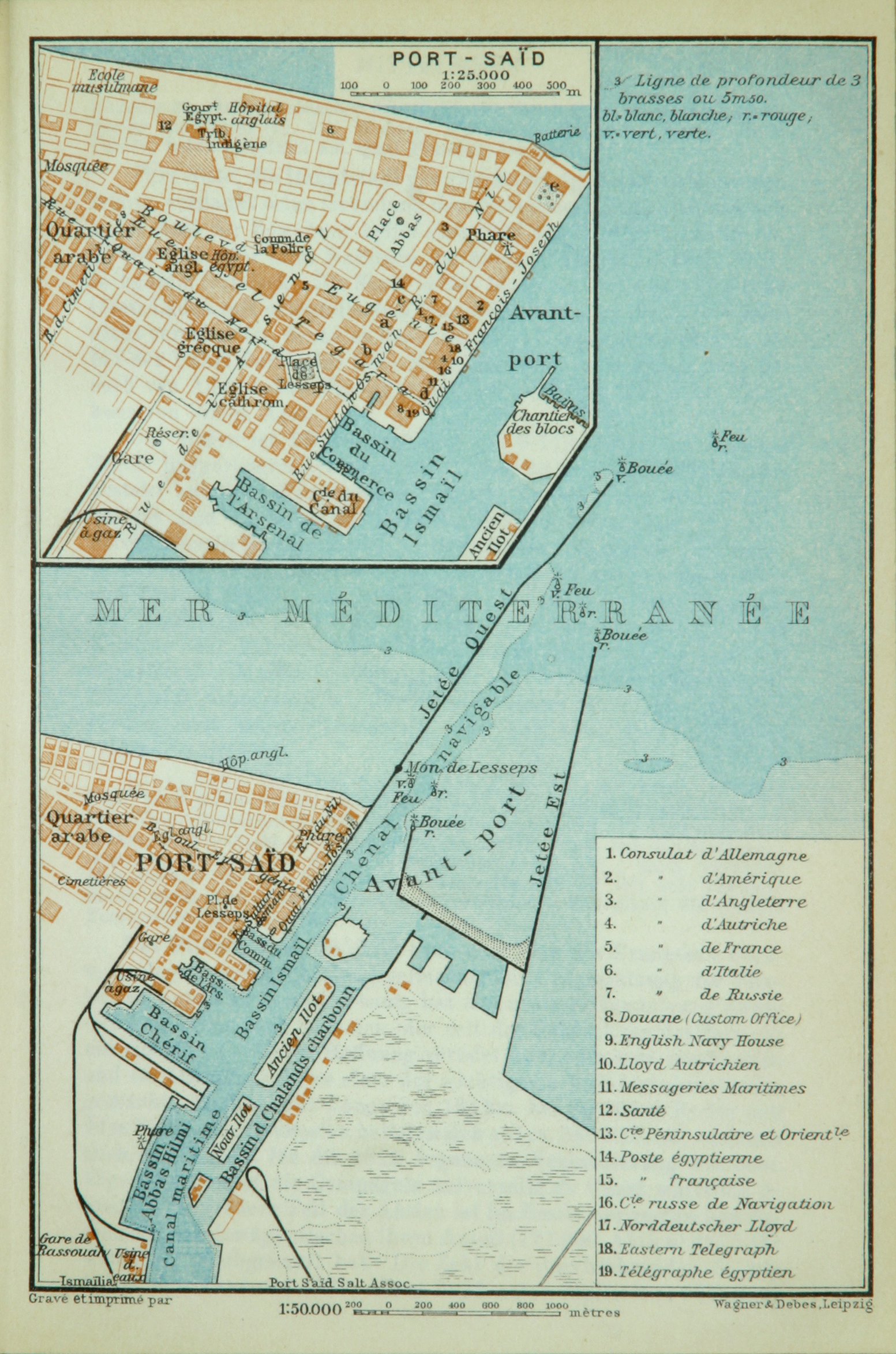 Map of Port Said and environs, esp. the port facilities (1:50,000), with an inserted smaller map of the actual city (1:25,000); labelled in French.